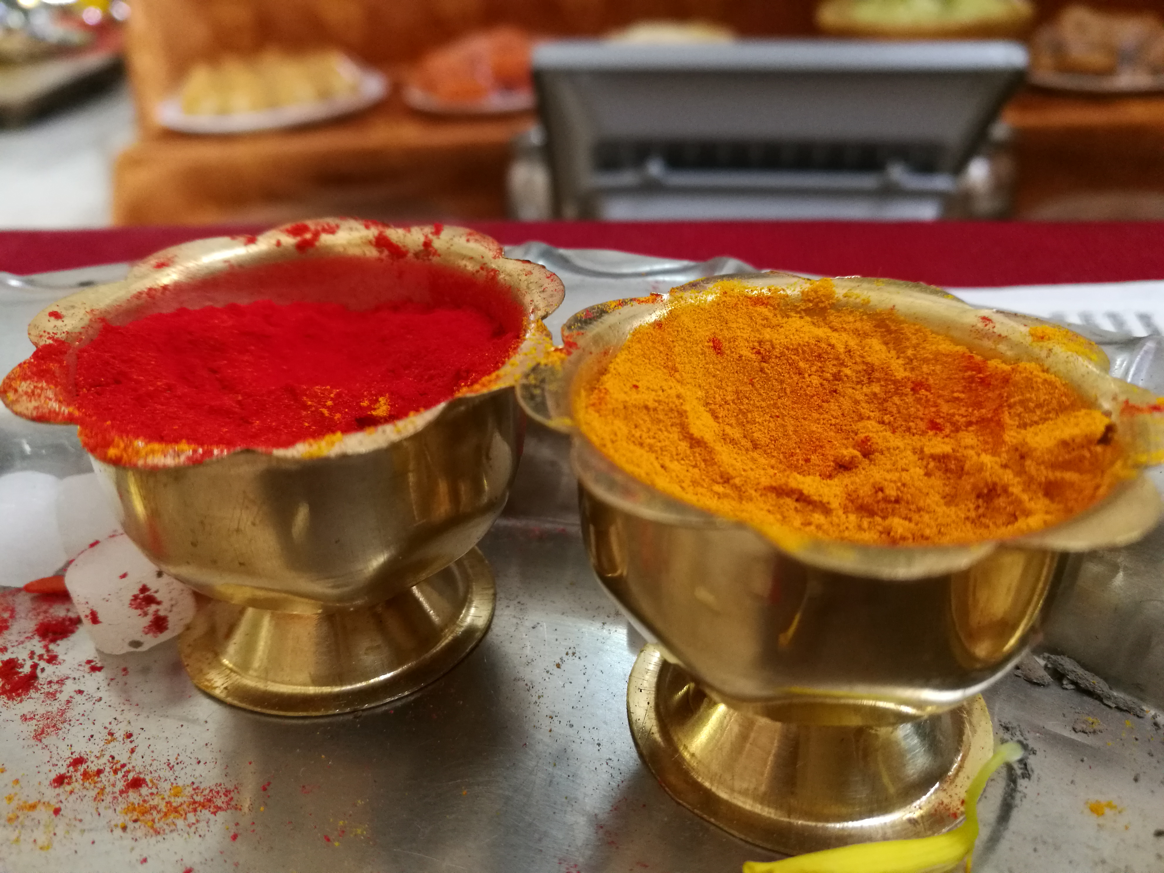 Haldi and kunku is used in every Indian festival